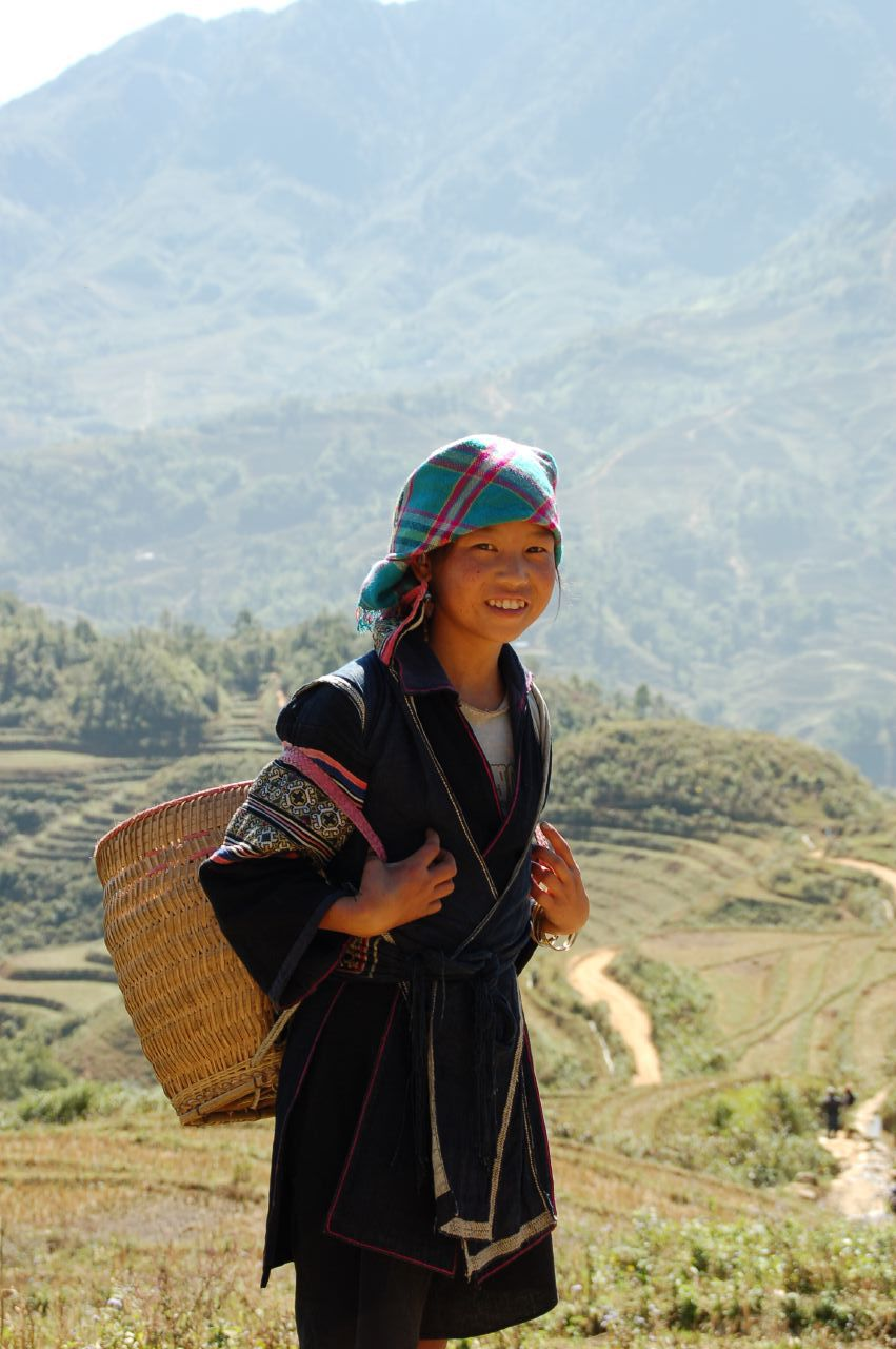 Girl of the Black H'mong people near Sapa, Vietnam